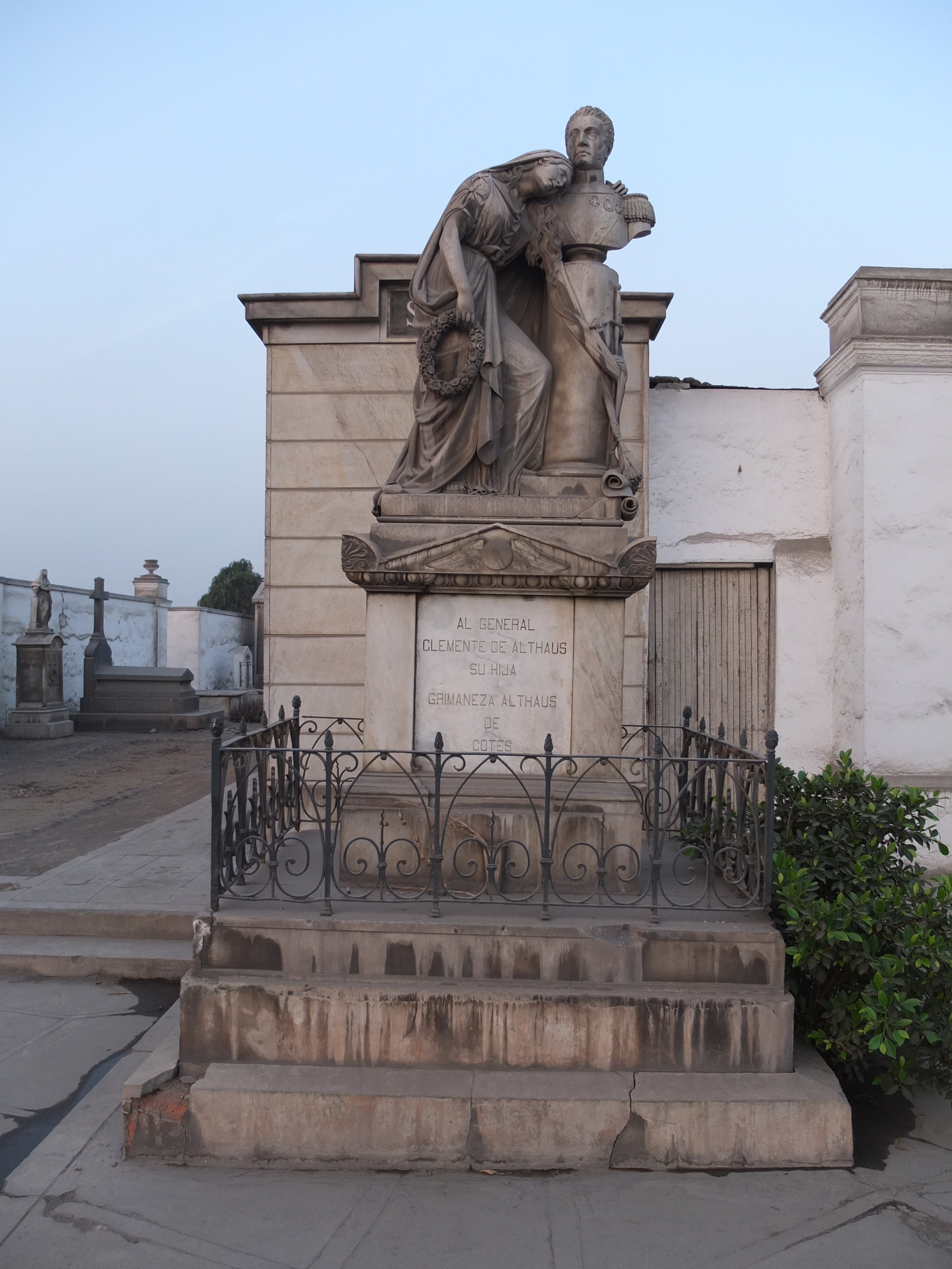 Grave Clemens von Althaus Lima